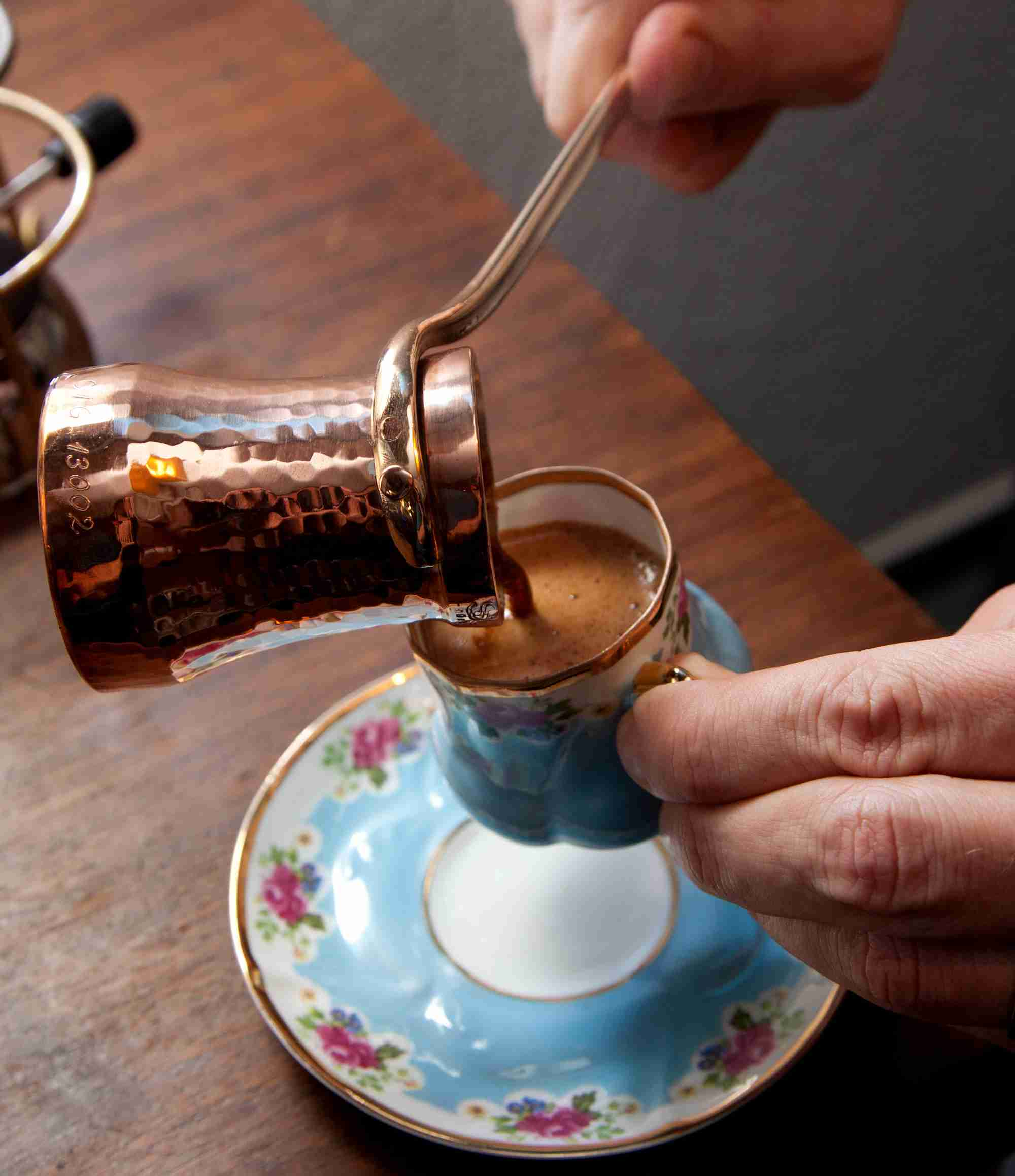 Turkish Coffee being poured from a copper cezve photograph by Müslüm Bayburs.